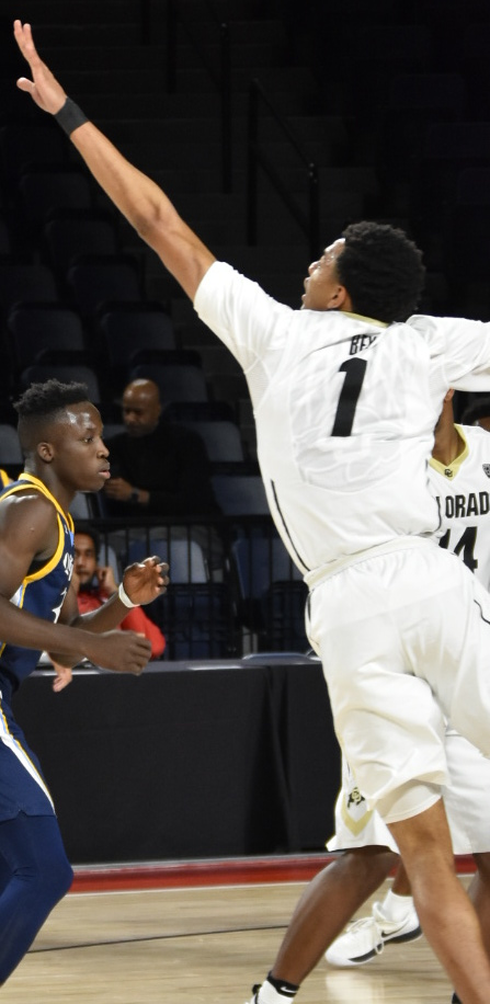 Game 3 of the 2017 Paradise Jam featured the Colorado Buffalos against the Quinnipiac Bobcats